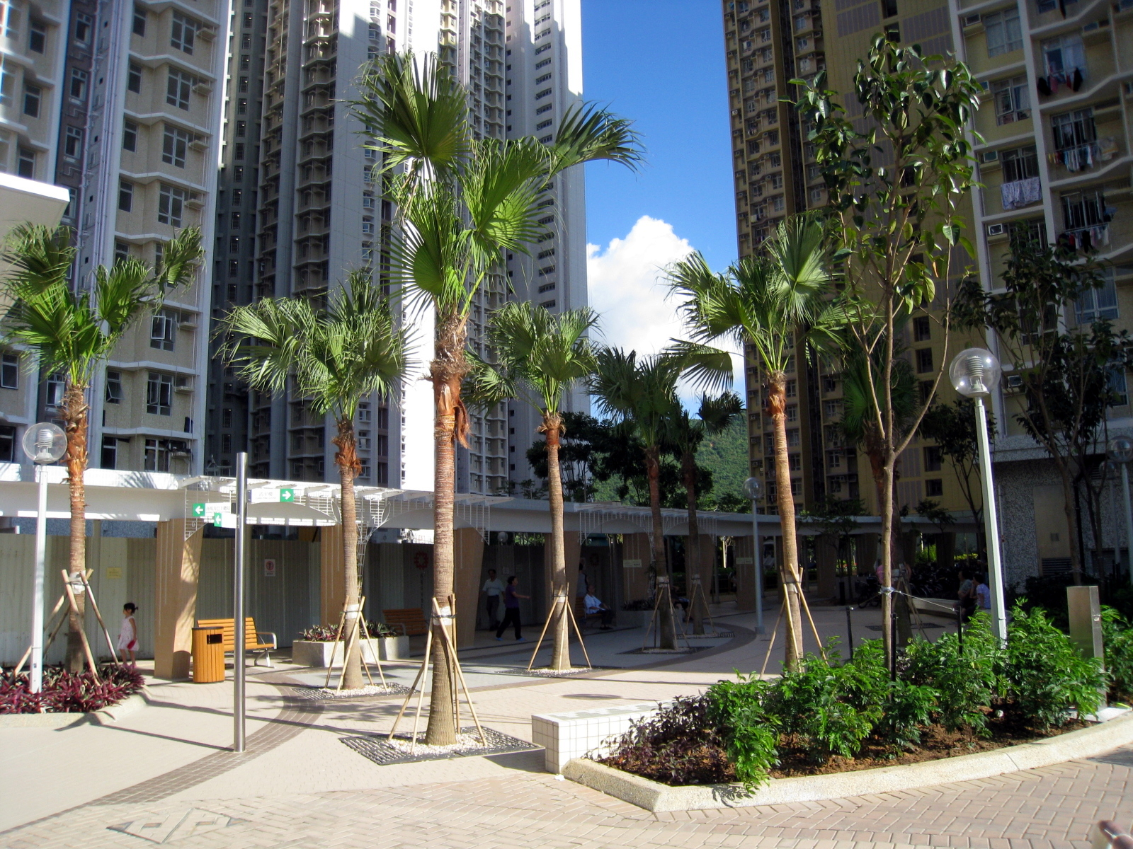 Ching Ho Estate Carpark 清河邨